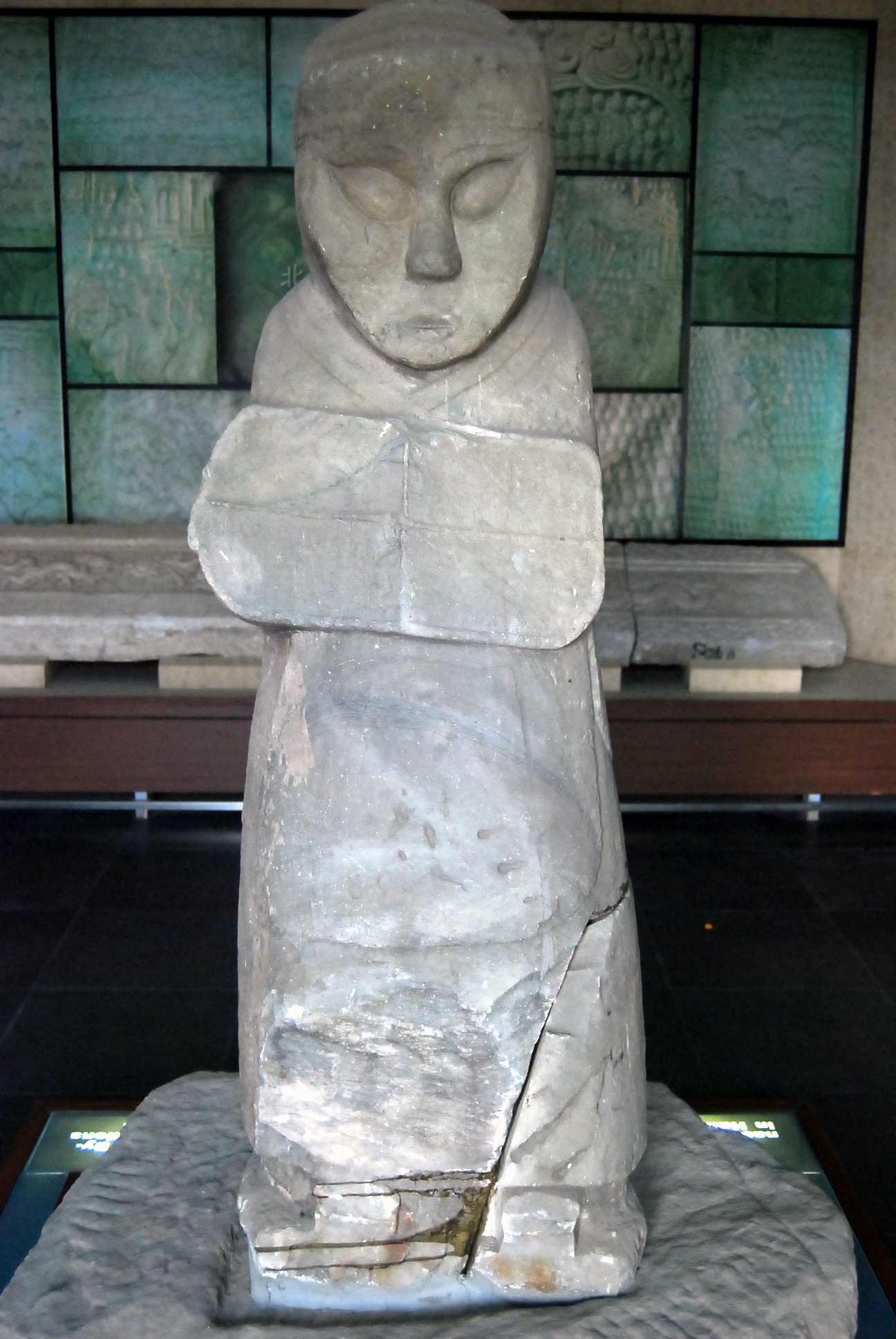 A stone statue of a man with a shield, which must have originally stood at an Eastern Han tomb. Excavated from the bed of the Yongding River in Fengtai District of Beijing DateEastern Han (1-2 century CE)Current locationBeijing Rock Carving Art Museum, ChinaSource/Photographerself photo